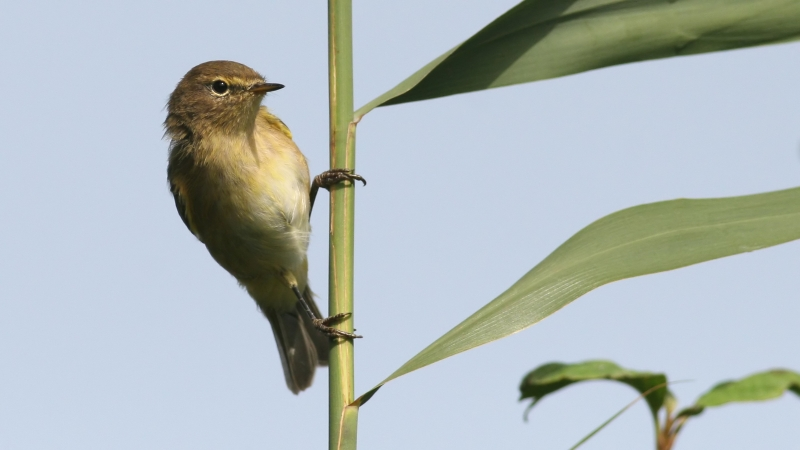 Chiffchaff (Phylloscopus collybita)